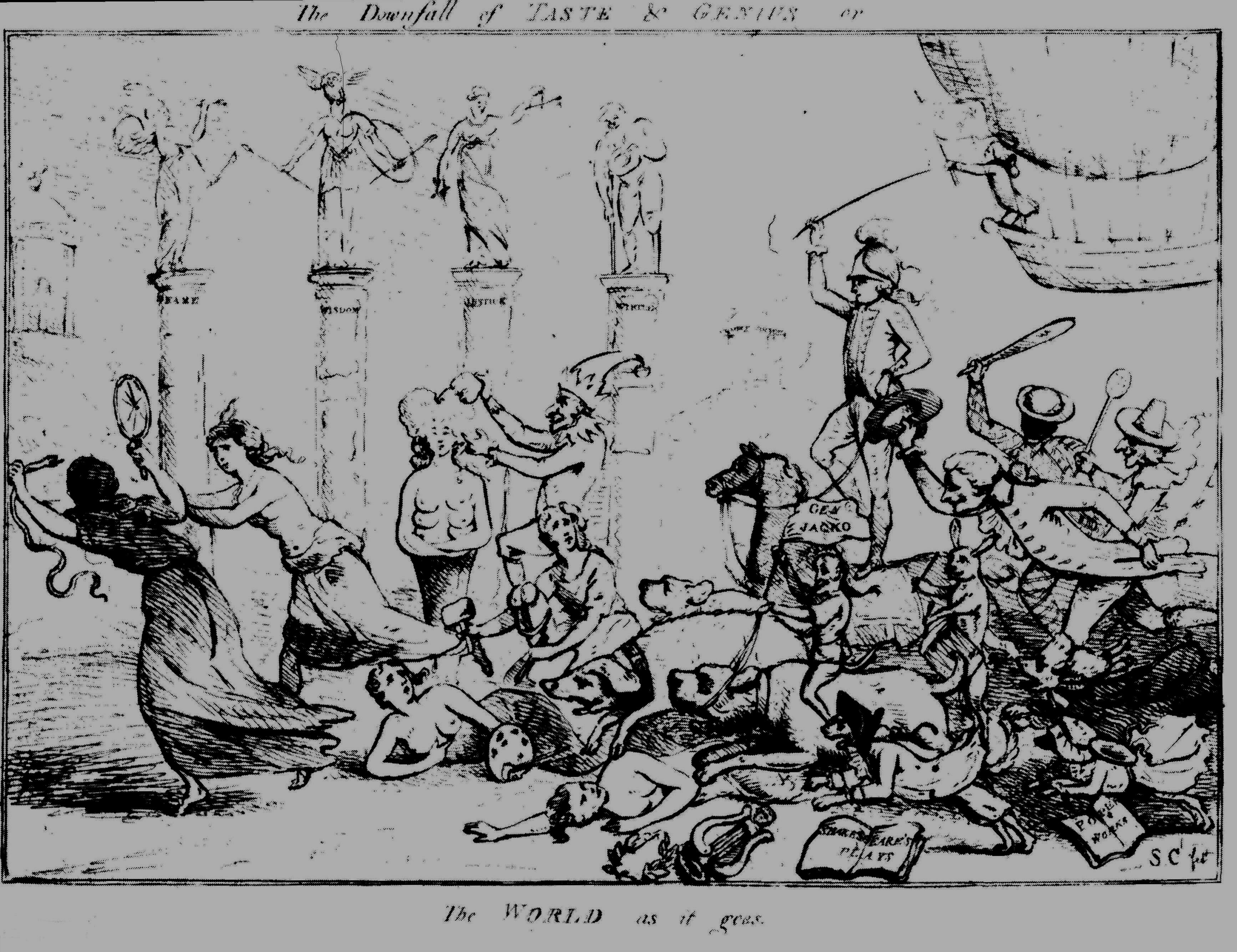 print from 1784 about theatrical events including the Learned Pig